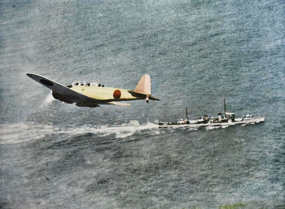 Colorized photo of a Nakajima B5N Carrier Torpedo Bomber in the South Java Sea. 1942